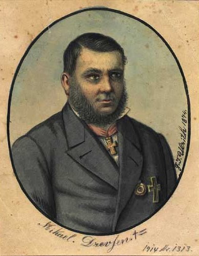 Danish industrialist and politician Michael Drewsen (1804-1874)